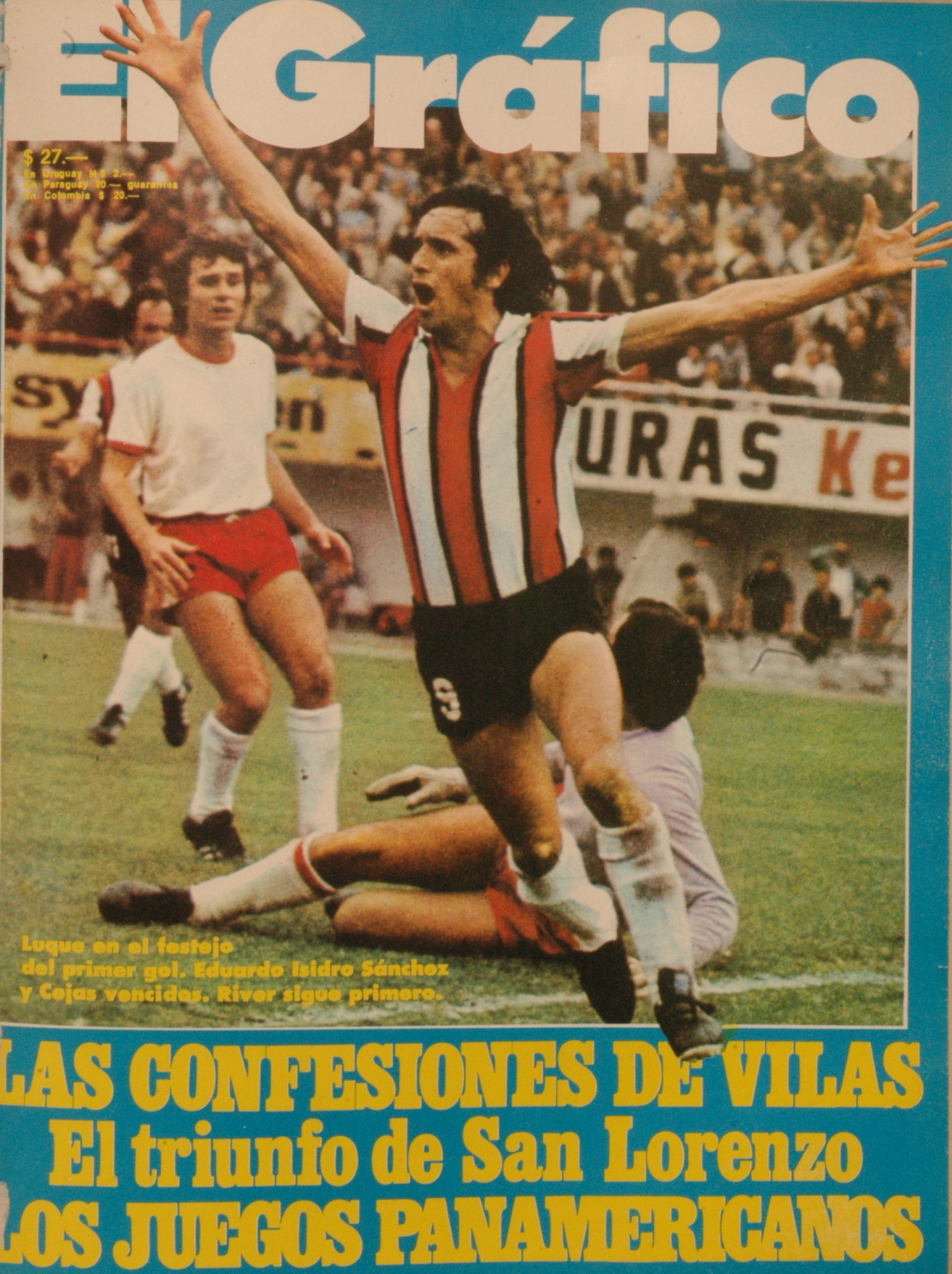 Luque celebrating, River (2) vs Huracán (1), Torneo Nacional.